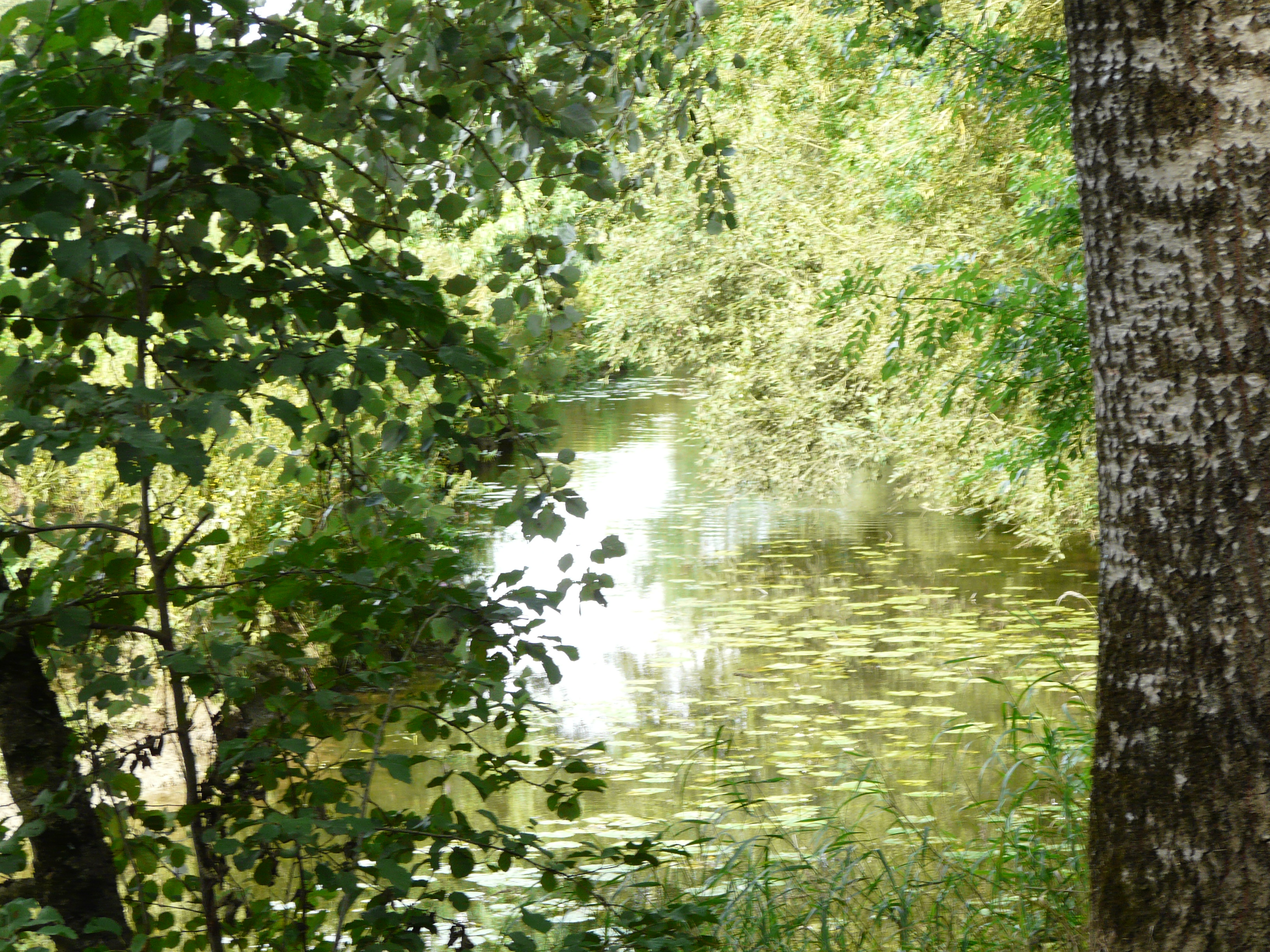 Le Don au Petit-Auverné (Site des "êtres")